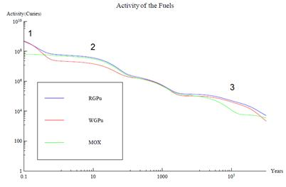 Total activity for different fuels